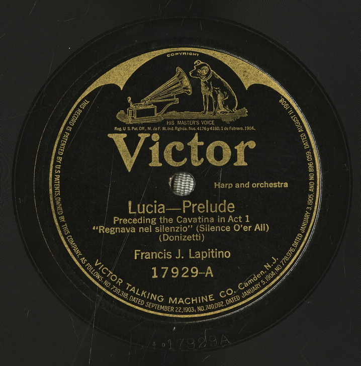 Preceding the Cavatina regnava neil silenzio; a harp solo by Francis J. Lapitino, Victor 17929